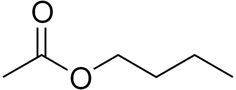 chemical structure of n-butyl acetate